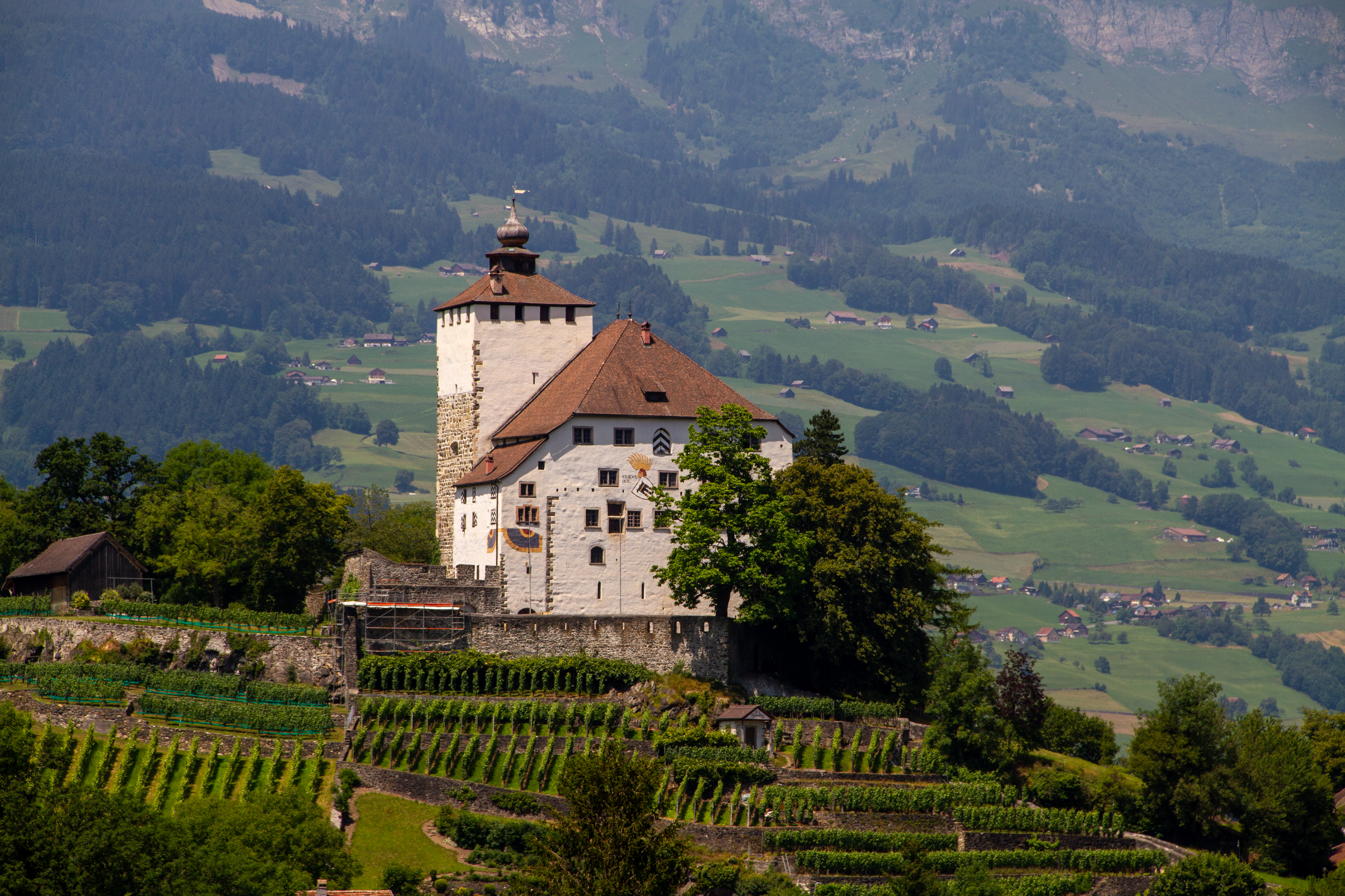 Werdenberg Castle